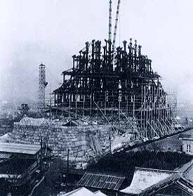 Osaka Castle tower during reconstruction.